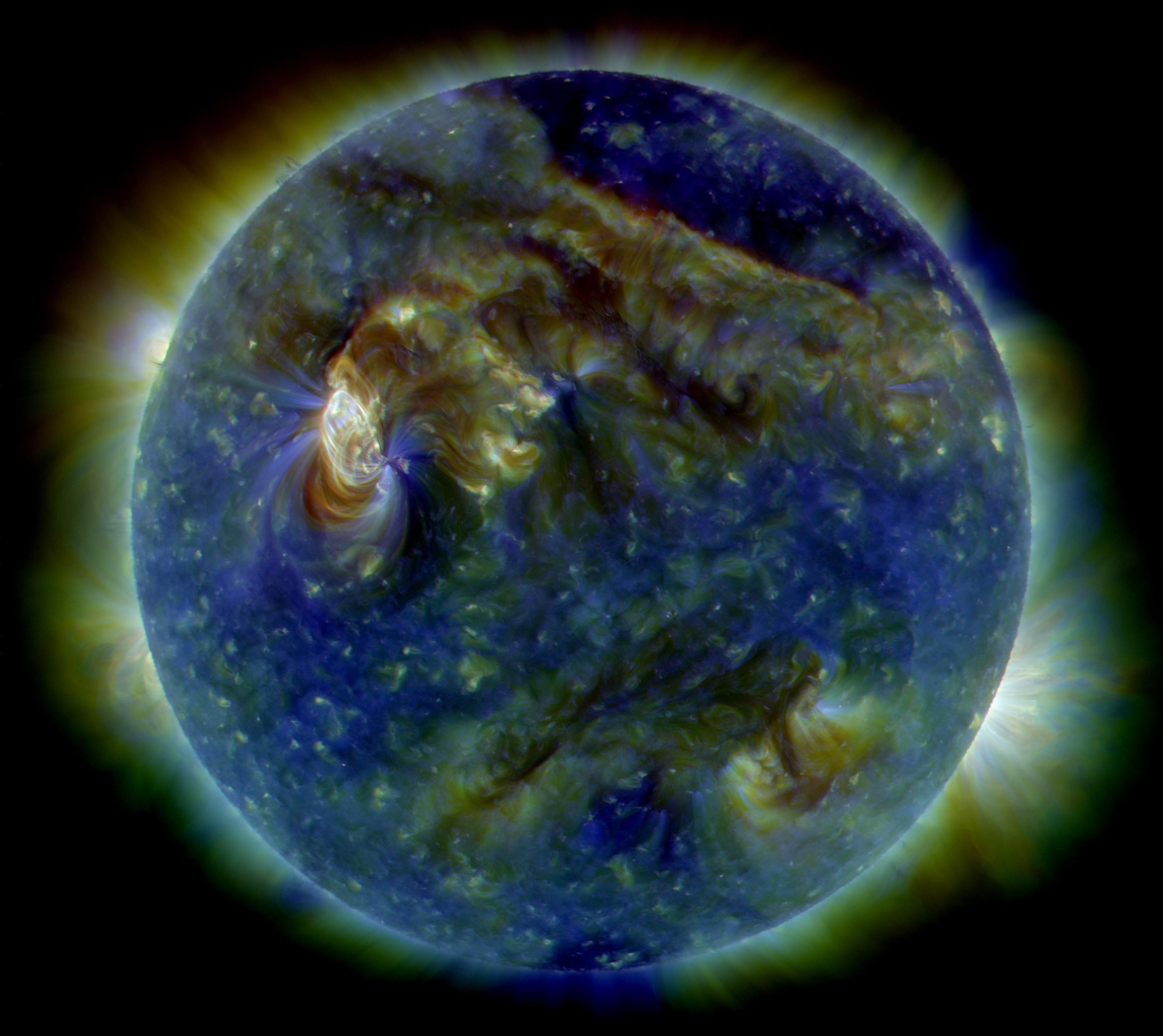 On August 1, 2010, almost the entire Earth-facing side of the sun erupted in a tumult of activity. This image from the Solar Dynamics Observatory of the news-making solar event on August 1 shows the C3-class solar flare (white area on upper left), a solar tsunami (wave-like structure, upper right), multiple filaments of magnetism lifting off the stellar surface, large-scale shaking of the solar corona, radio bursts, a coronal mass ejection and more. This multi-wavelength extreme ultraviolet snapshot from the Solar Dynamics Observatory shows the sun's northern hemisphere in mid-eruption. Different colors in the image represent different gas temperatures. As of August 21, Earth's magnetic field is still reverberating from the solar flare impact on August 3, 2010, which sparked aurorae as far south as Wisconsin and Iowa in the United States. Analysts believe a second solar flare is following behind the first flare and could re-energize the fading geomagnetic storm and spark a new round of Northern Lights.